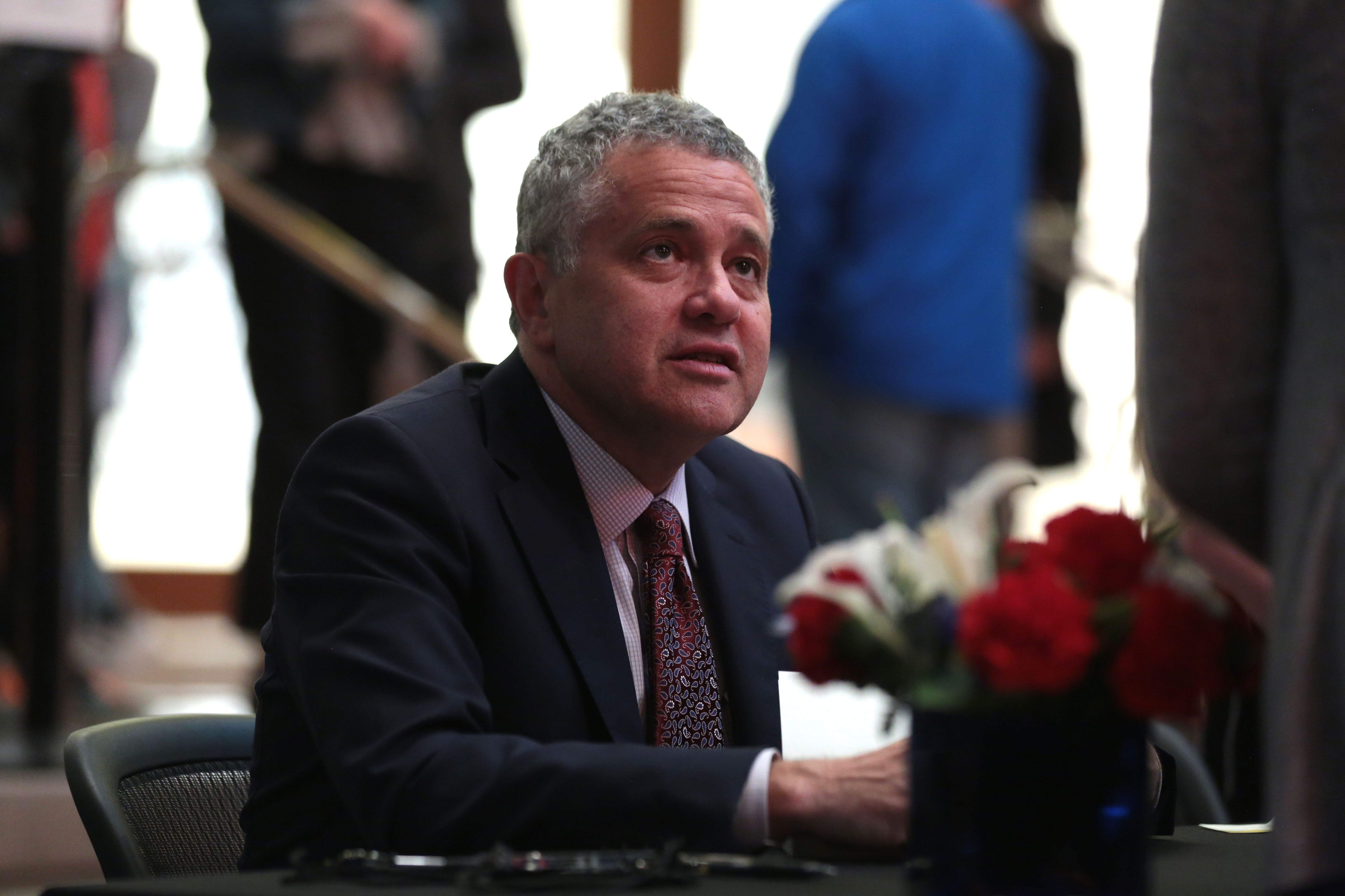 Jeffrey Toobin signing books after the 2017 John J. Rhodes Lecture hosted by Barrett, the Honors College at Arizona State University at the Tempe Center for the Arts in Tempe, Arizona.